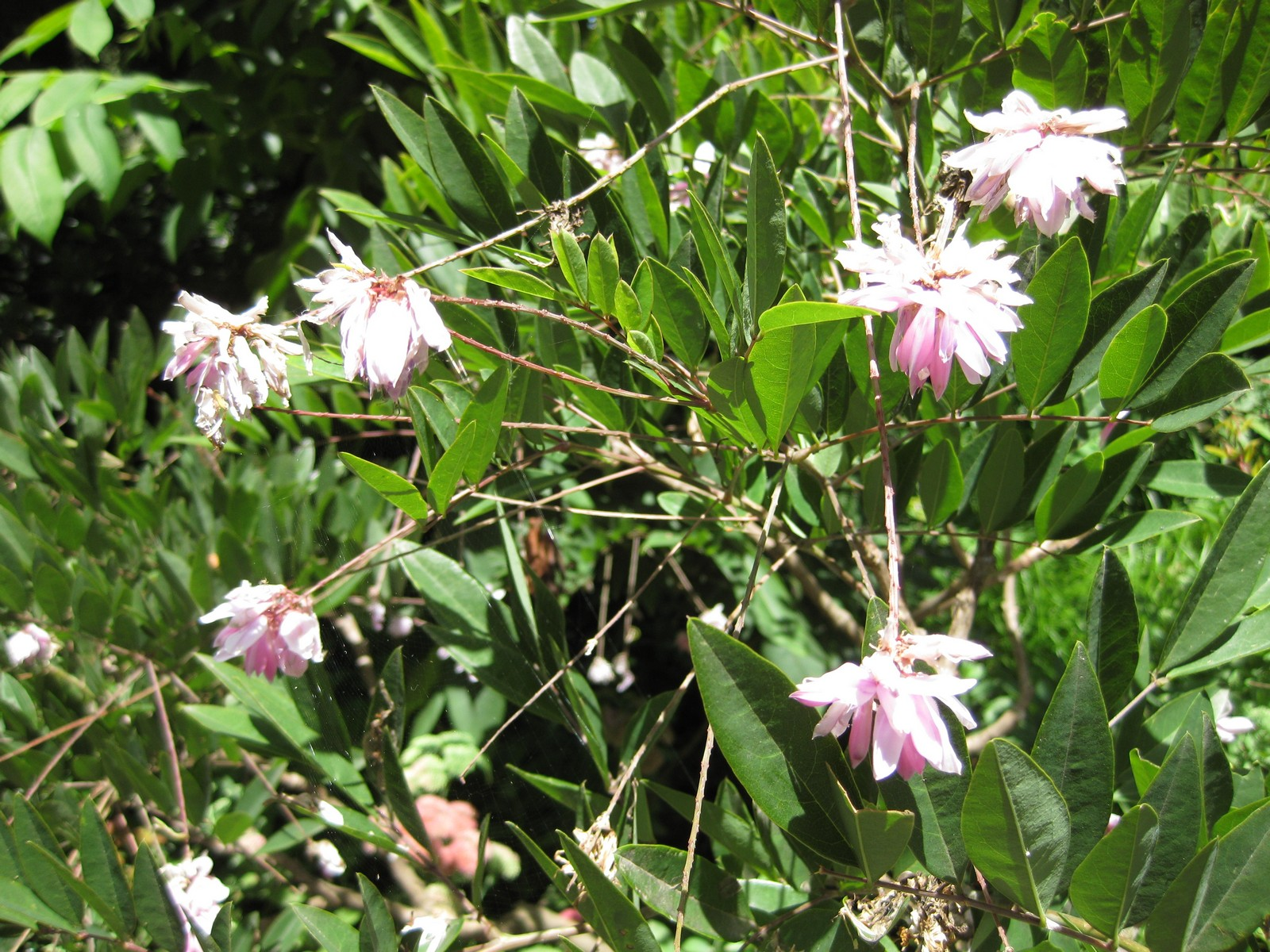 Photographed at the Royal Botanic Gardens Melbourne (Australia) in December